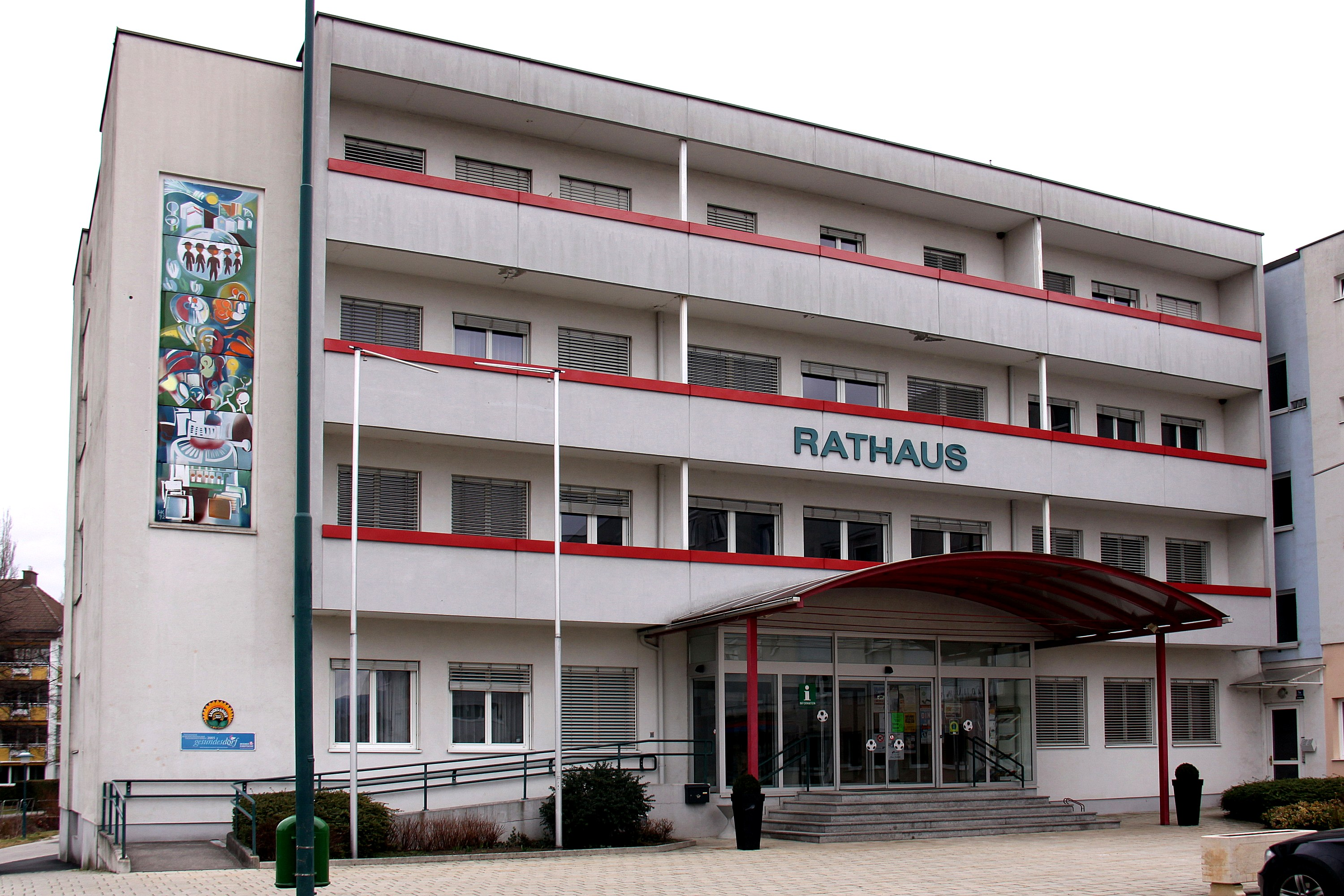 Seat of local government - Mattersburg. Object location47° 44′ 18.14″ N, 16° 24′ 05.8″ E